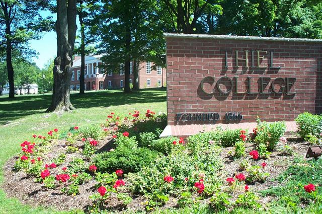 Thiel College entrance